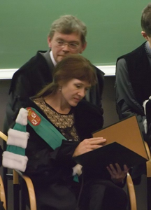 Nancy Huston